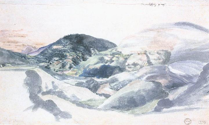 Watercolor Segonzano in Cembra valley(1495)